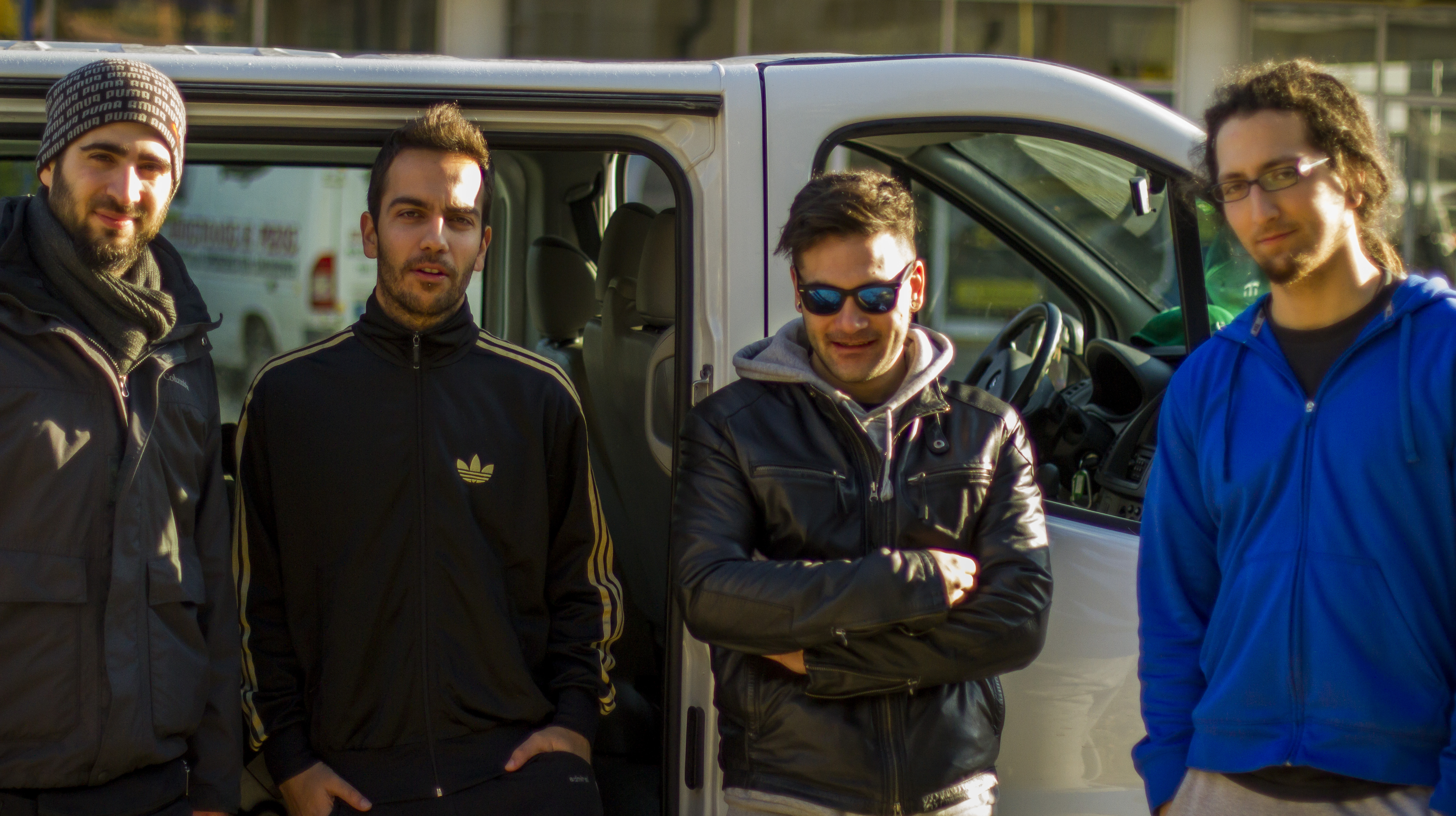 Bewized while touring Greece during Undead Legacy Tour 2013